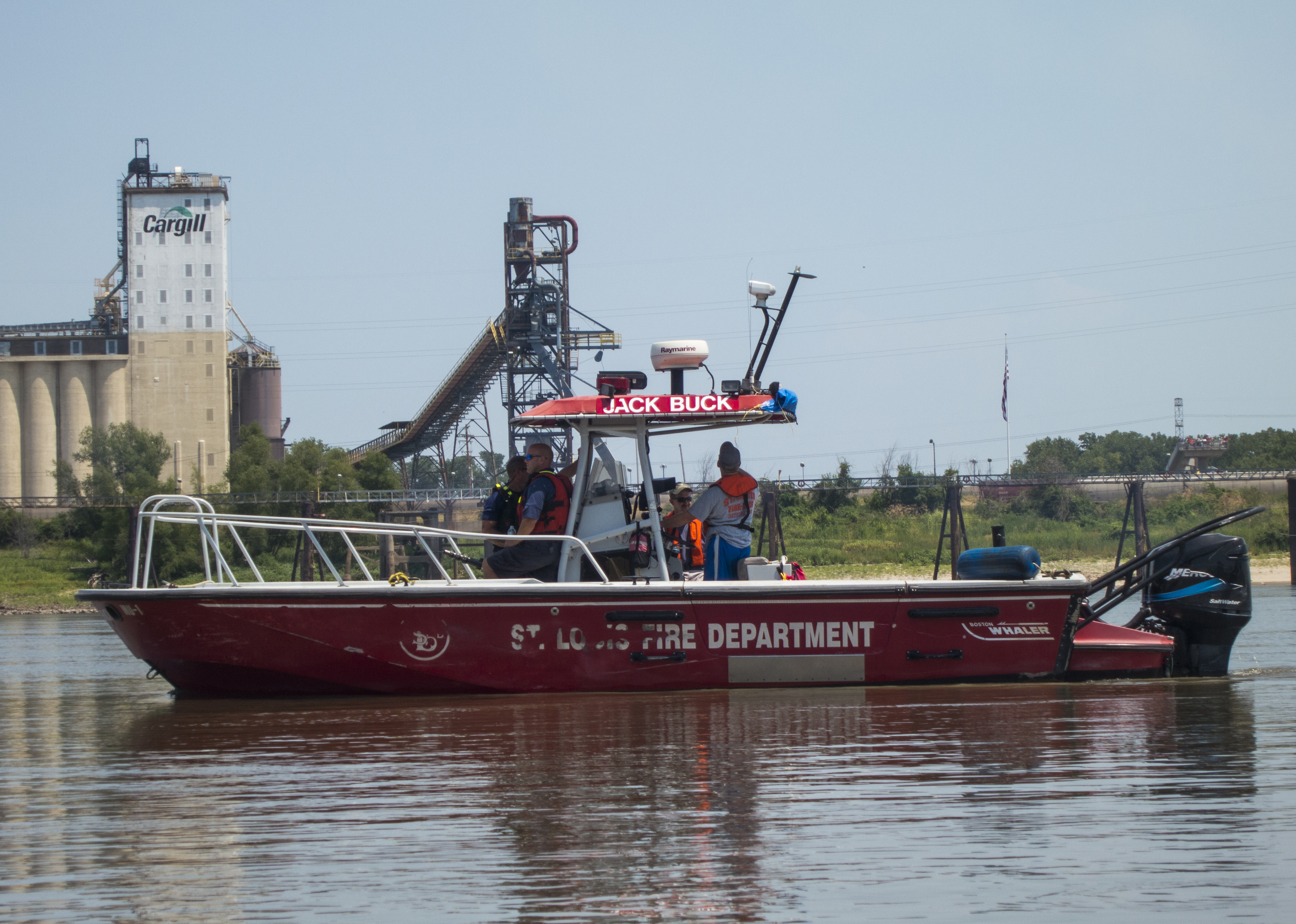 St. Louis Fire Department firefighters patrol the Mississippi River aboard the"Jack Buck" during Fair Saint Louis 2012.